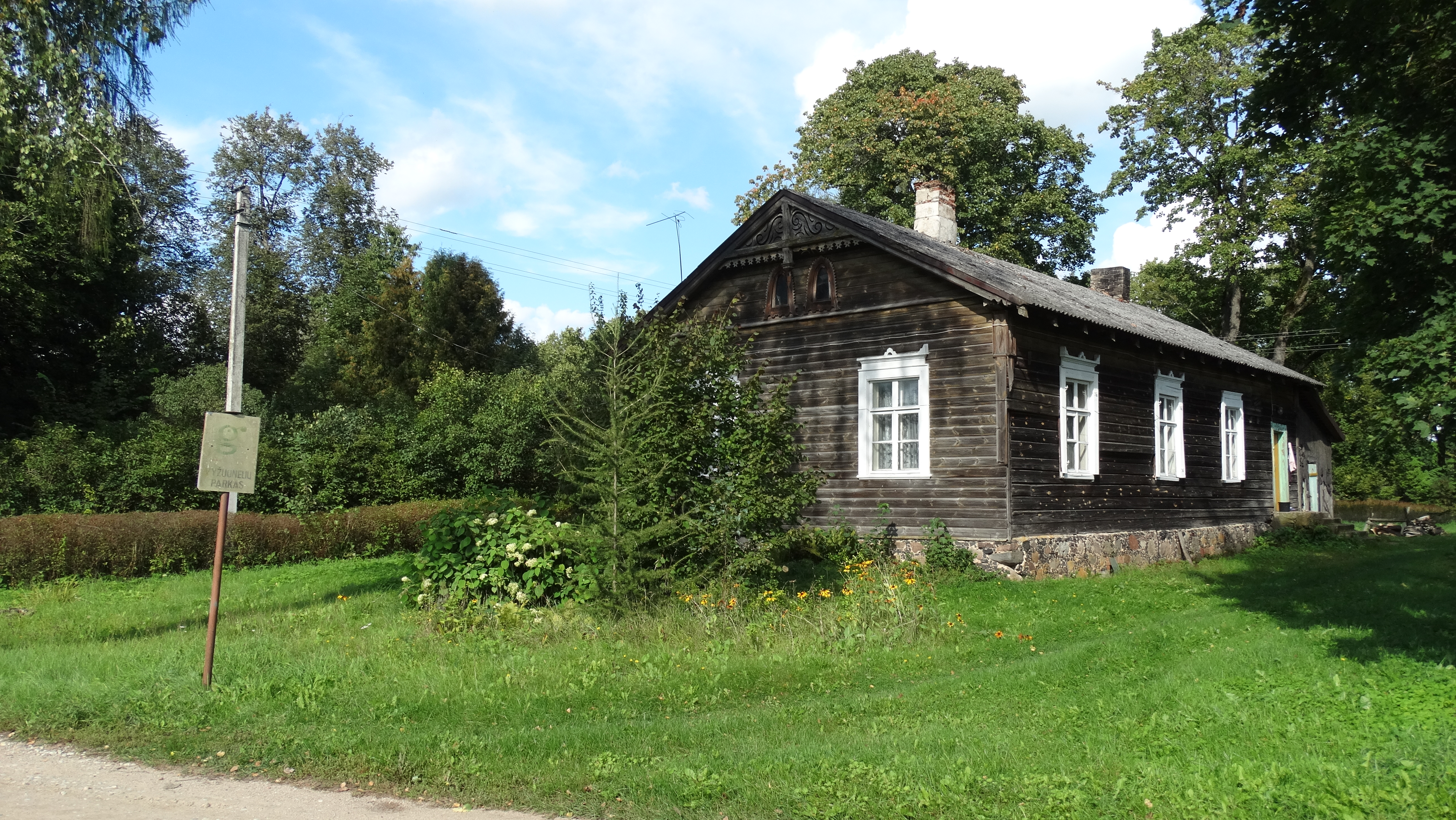 Vyžuonėlės manor, studio of Marianne von Werefkin, Utena district, Lithuania